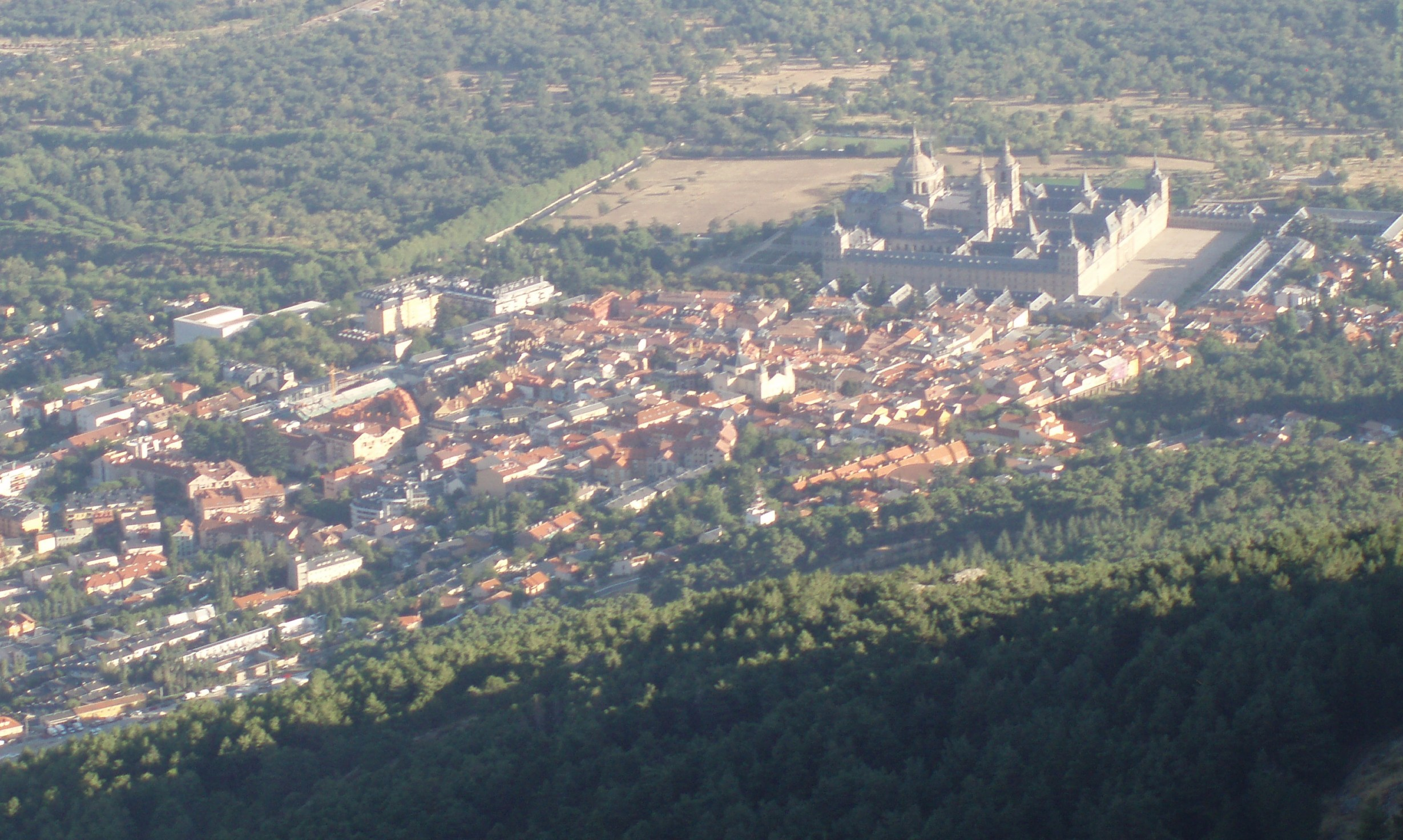 San Lorenzo de El Escorial seen from the summit of Abantos Mount (Guadarrama mountain range, central Spain).